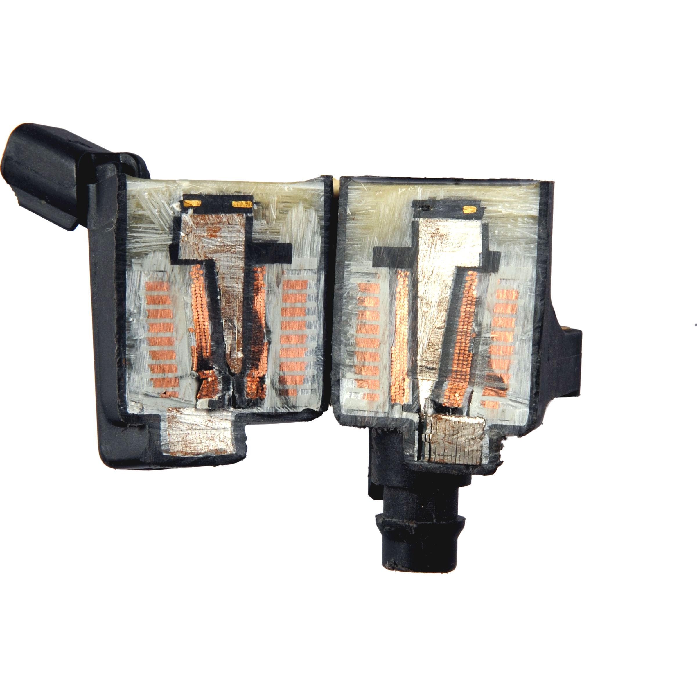 Aceon Ignition Coil 7805-1154D.